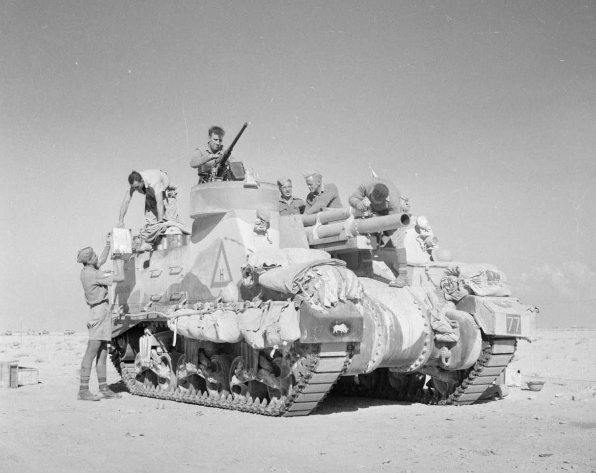 THE BRITISH ARMY IN NORTH AFRICA 1942; A Priest 105mm self-propelled gun of 1st Armoured Division is prepared for action